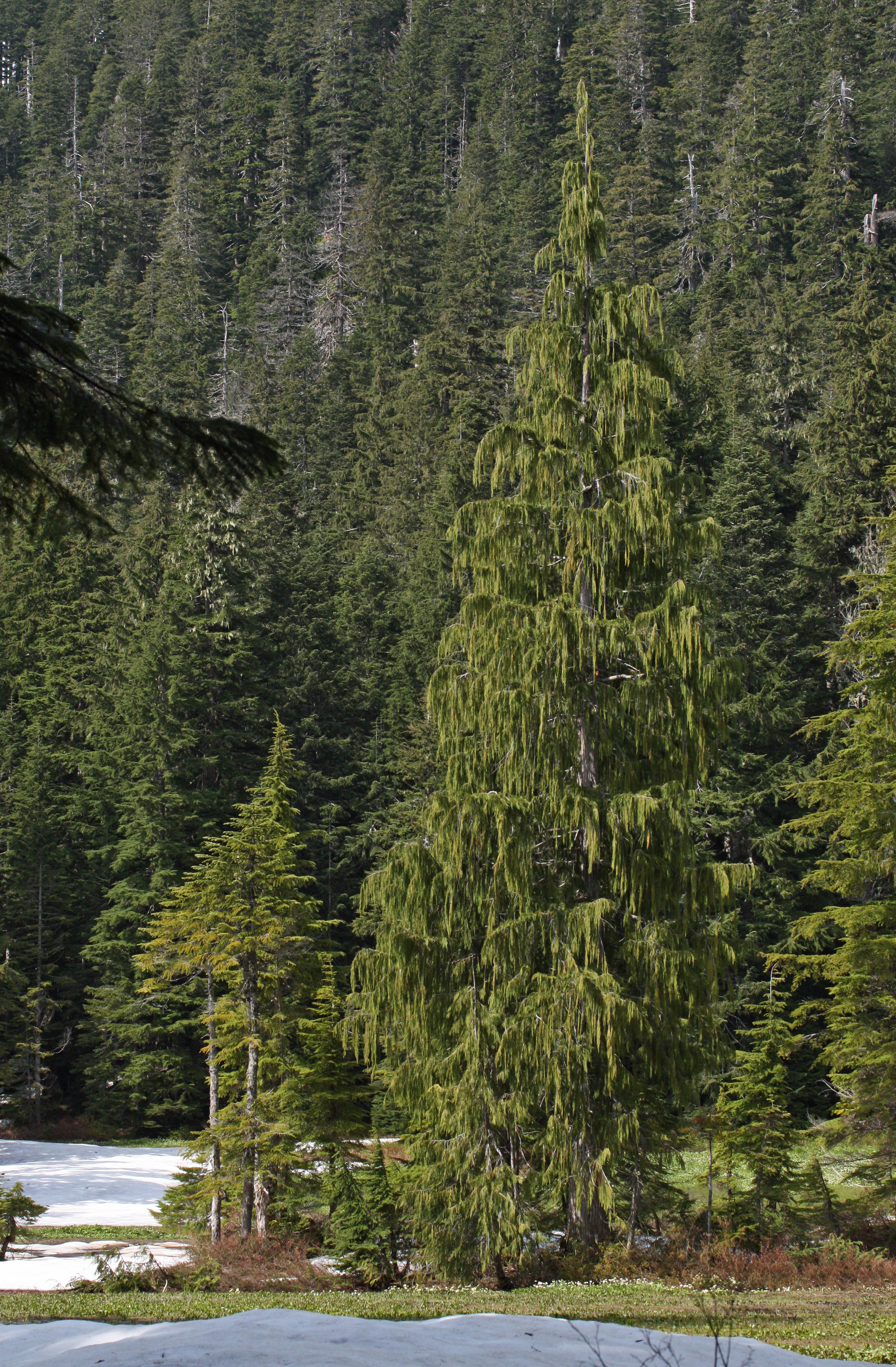 Nootka Cypress, Yellow Cypress, Alaska Cypress syn. Callitropsis nootkatensis (D. Don) Oerst.